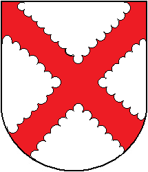 Coat of arms of Lugnez, Canton of Jura, Switzerland (Source: Symbol on the wall of the municipal administration)